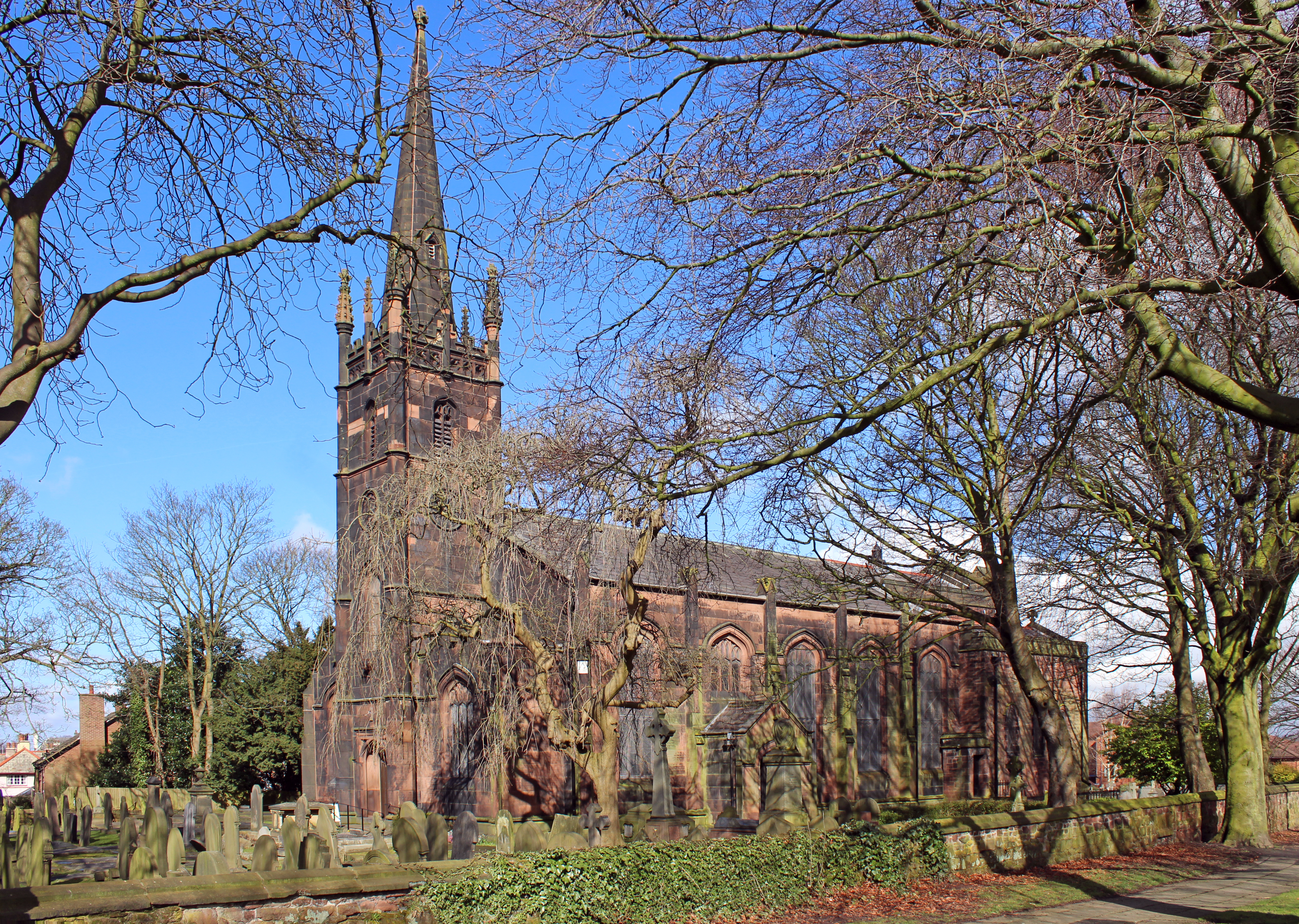 Grade II listed stone church in Knotty Ash, Liverpool, dating to 1835 with chancel and side chapel added 1890. in mixed, but compatible styles by Aldridge & Deacon.Seen from Brookside Avenue near junction with Thomas Lane.